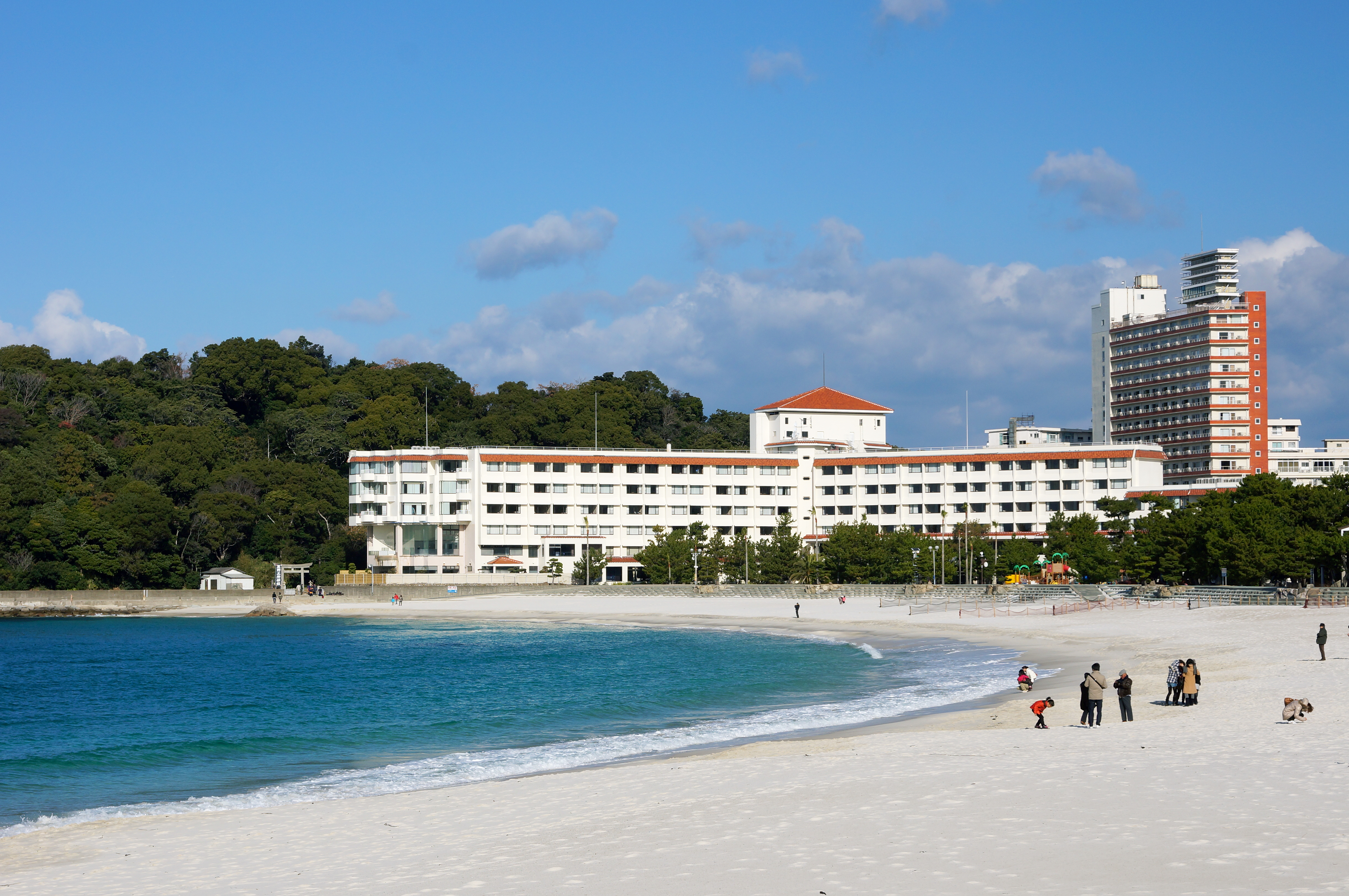 Shirarahama Beach in Shirahama, Wakayama prefecture, Japan.